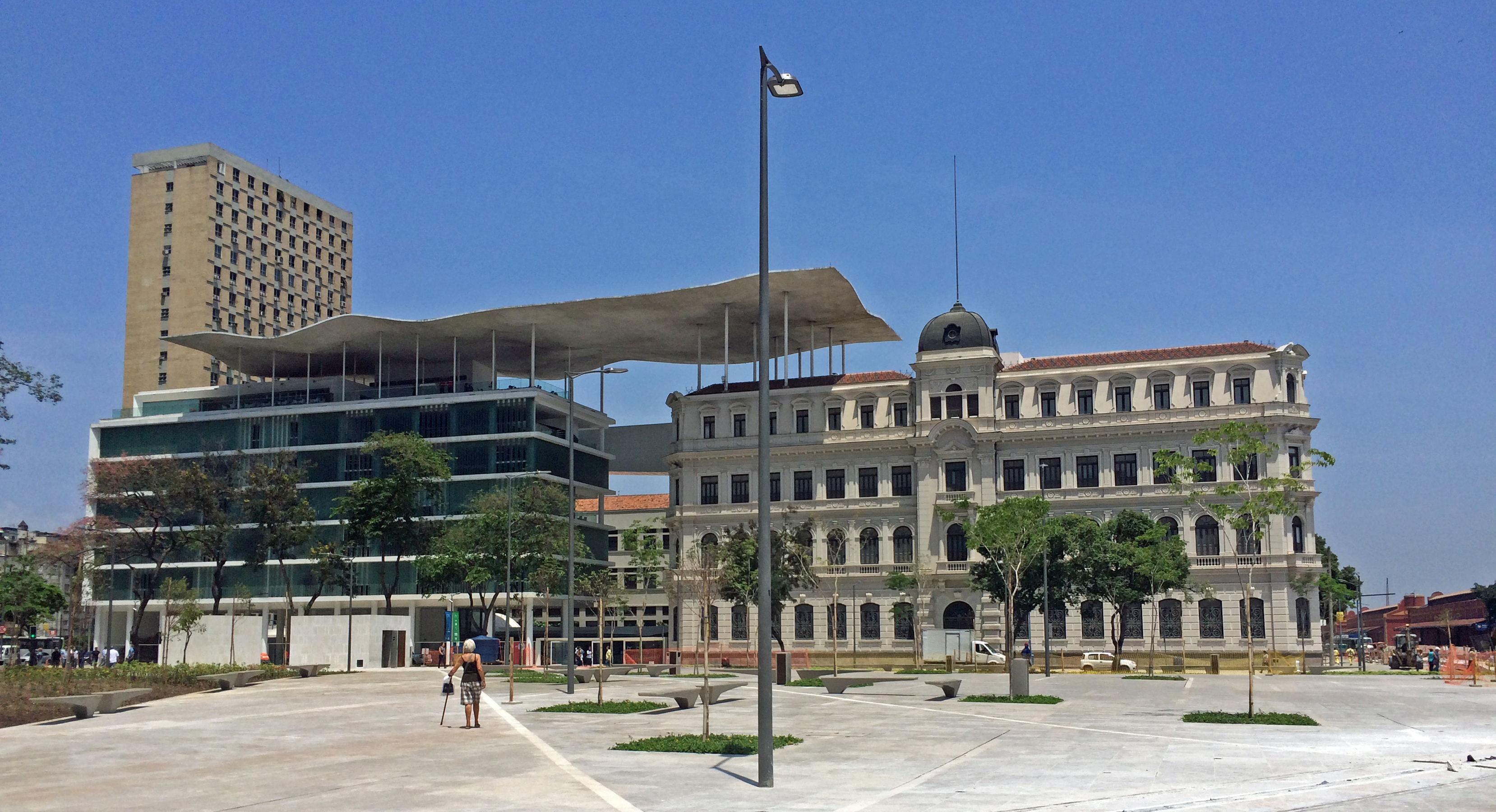 Praça Mauá, Rio de Janeiro. At the left, Museu de Arte do Rio.